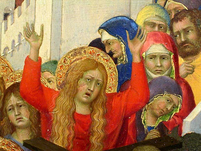 Way_to_calvary_det._louvre.jpg